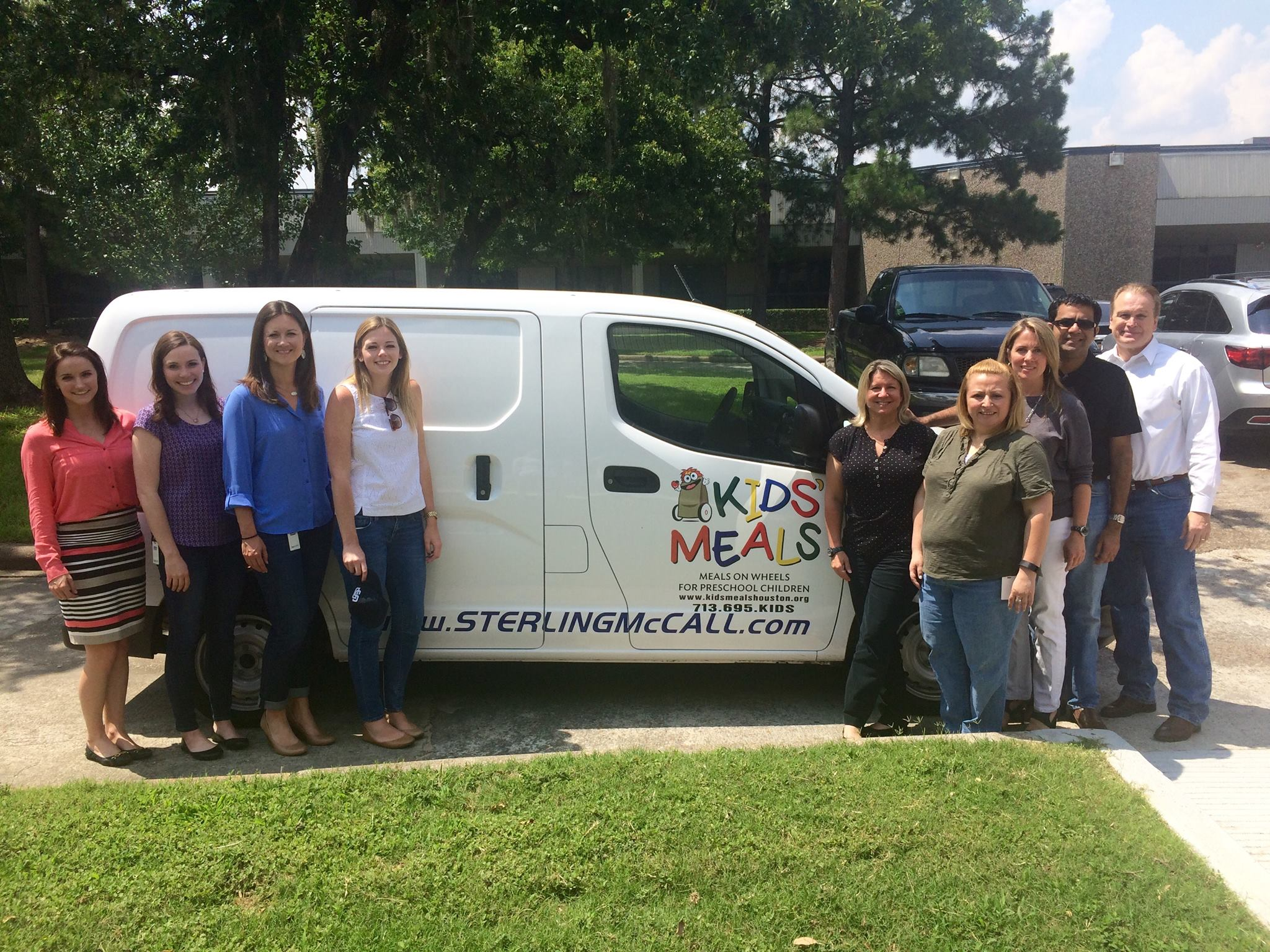 Group 1 Employees pose with a Nissan delivery van donated by the company to support Kids' Meals delivery efforts.